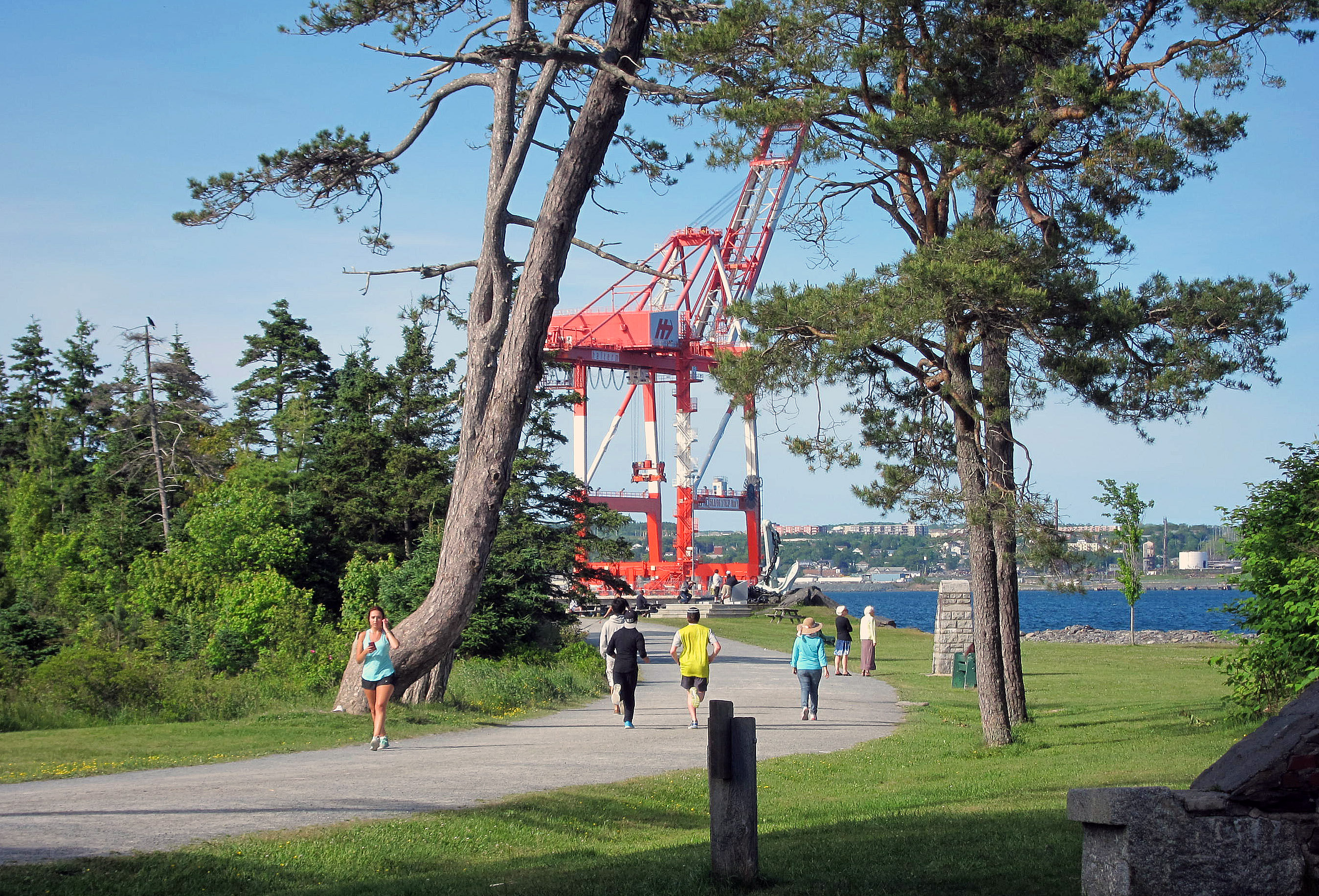 Joggers in Point Pleasant Park in Halifax, 2016